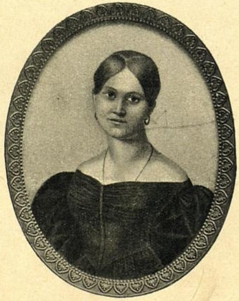 Anna Kern